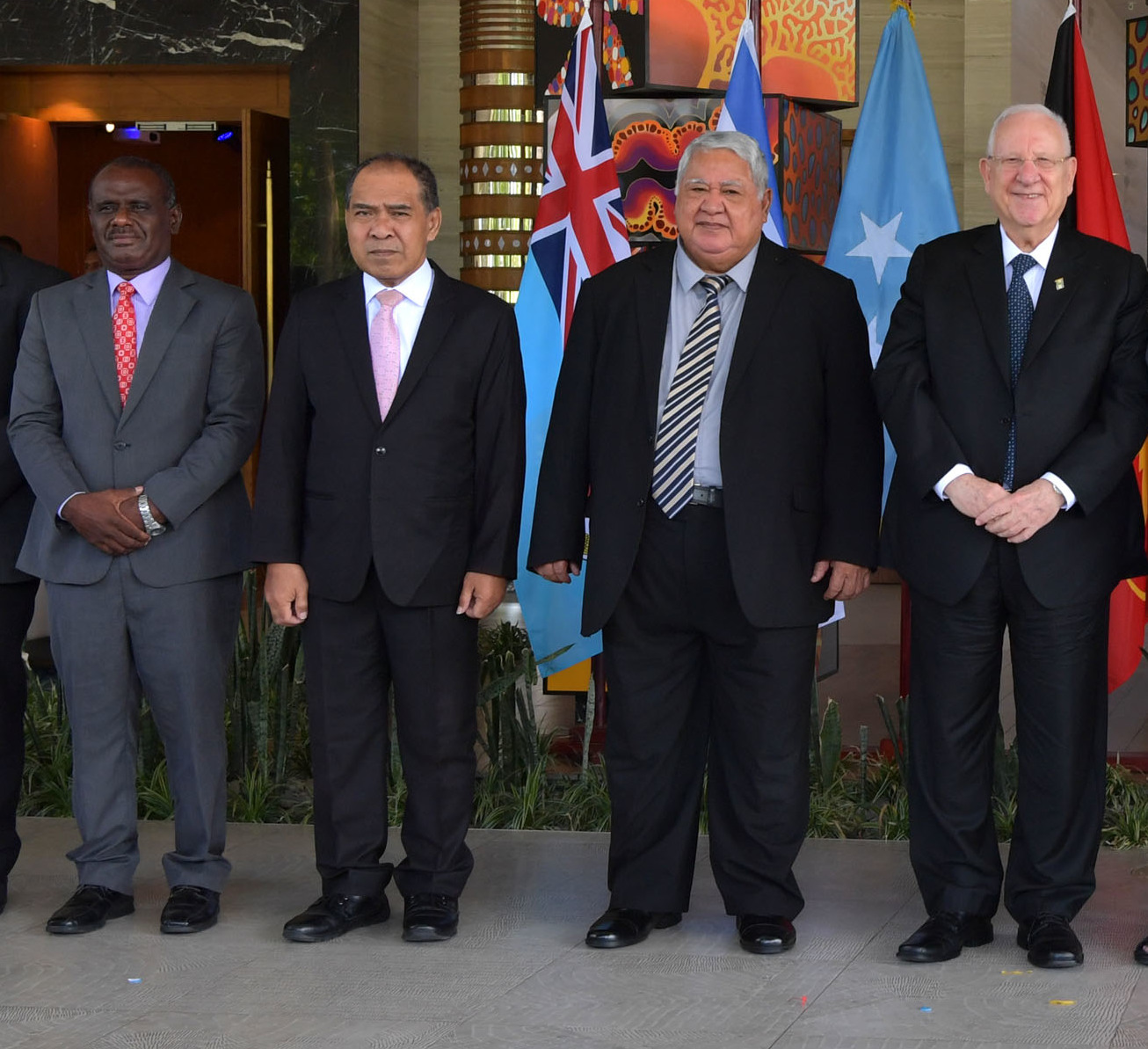 The President of Israel, Reuven Rivlin landed in Fiji, was welcomed on the island in a traditional ceremony and led a first summit meeting of the Pacific nation's. Thursday, February 20, 2020. Credit Photo: Kobi Gideon / GPO. From left: Federated States of Micronesia Embassy Charge D’Affaires Wilson Waguk, Solomon Islands Minister for Foreign Affairs Jeremiah Manele, Deputy Prime Minister of Tuvalu Minute Alapati Taupo, Samoan Prime Minister Tuilaepa Lupesoliai Sailele Malielegaoi, Israeli President Reuven Rivlin, Fijian Prime Minister Voreqe Bainimarama, Prime Minister of Papua New Guinea James Marape, Deputy Prime Minister of Tonga Sione Vuna Fa'otusia, Minister for Internal Affairs of Vanuatu Andrew Solomon Napuat at the Pullman Nadi Bay Resort and Spa on February 20, 2020.